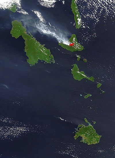 Ash plume from Ambrym Volcano, Vanuatu October 4, 2004, 23:00 UTC